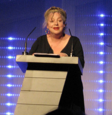 Image of Jo Brand at an award ceremony.